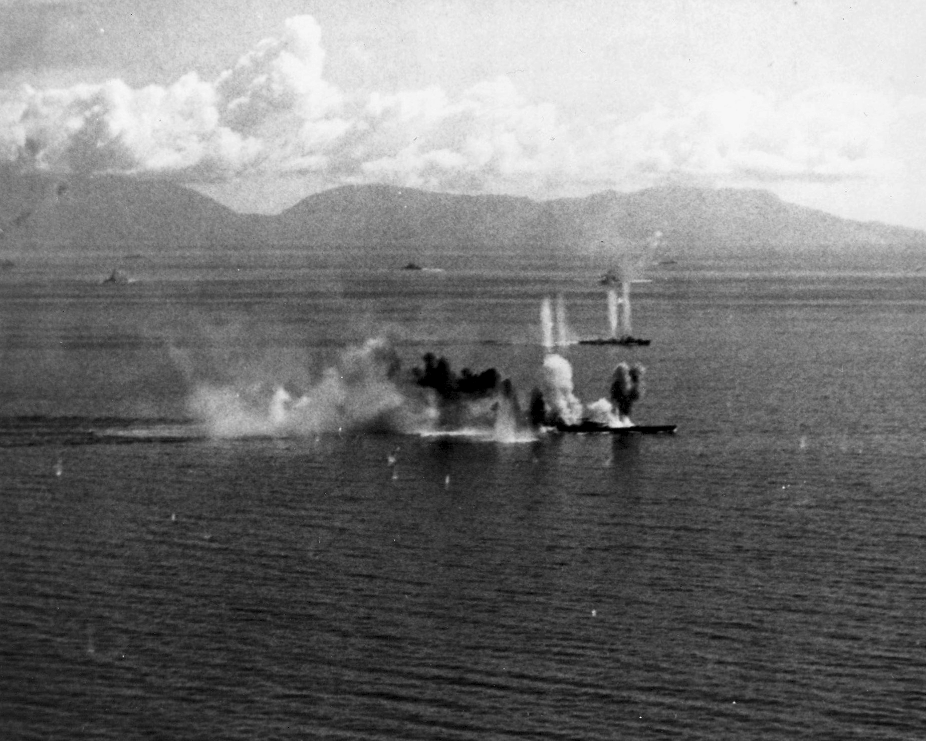 U.S. Navy Task Force 38 aircraft attack the Japanese battleship Musashi (foreground) and a destroyer in the Sibuyan Sea, 24 October 1944.